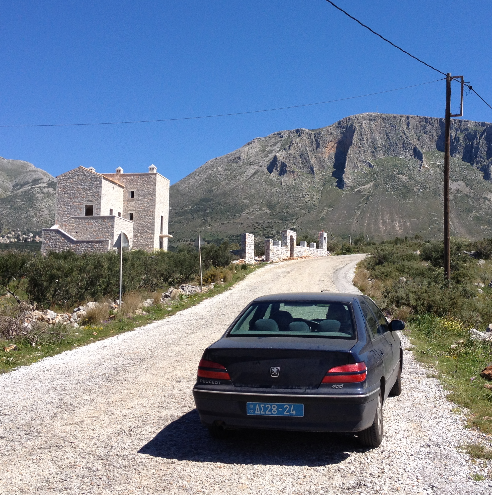 Peugeot 406 with Greek diplomatic licence plate at Gerolimenas, Mani. The licence plate is a text-book demonstration of how Greek diplomatic are used. The letters Delta and Sigma indicate that this is a diplomatic licence plate (Διπλωματικό Σώμα, Diplomatiko Soma, meaning diplomatic corps). The numbers before the dash (28) refer to an embassy, the numbers after the dash indicate the individual number of the car. Often, the number also gives an indication of the owner's rank at an embassy. Ambassadors often privately use a licence plate ending with "-1", their deputy often uses the licence plate ending with "-2". Hence this vehicle may be registered to a low-ranking diplomat.